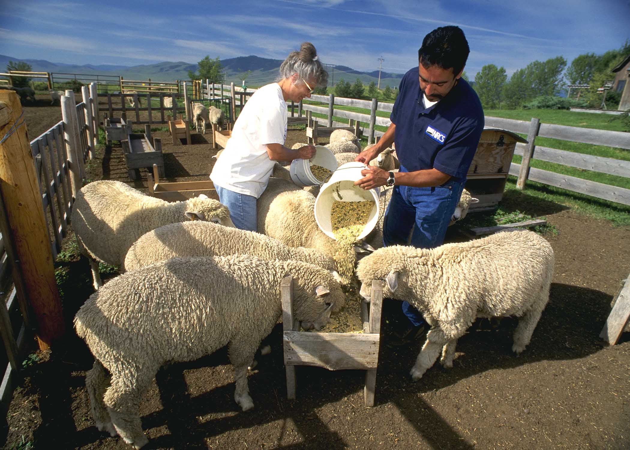 A NRCS Resource Conservationist, assists in feeding Corriedale sheep on a ranch in Charlo, Mission Valley, Montana